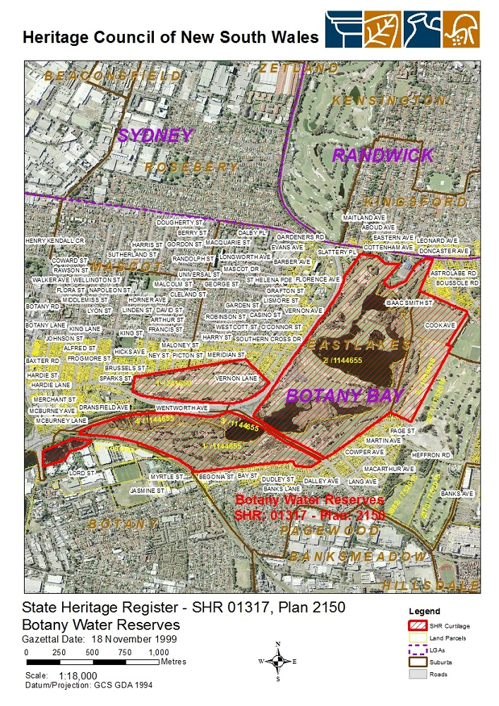 Botany Water Reserves: SHR Plan 2150